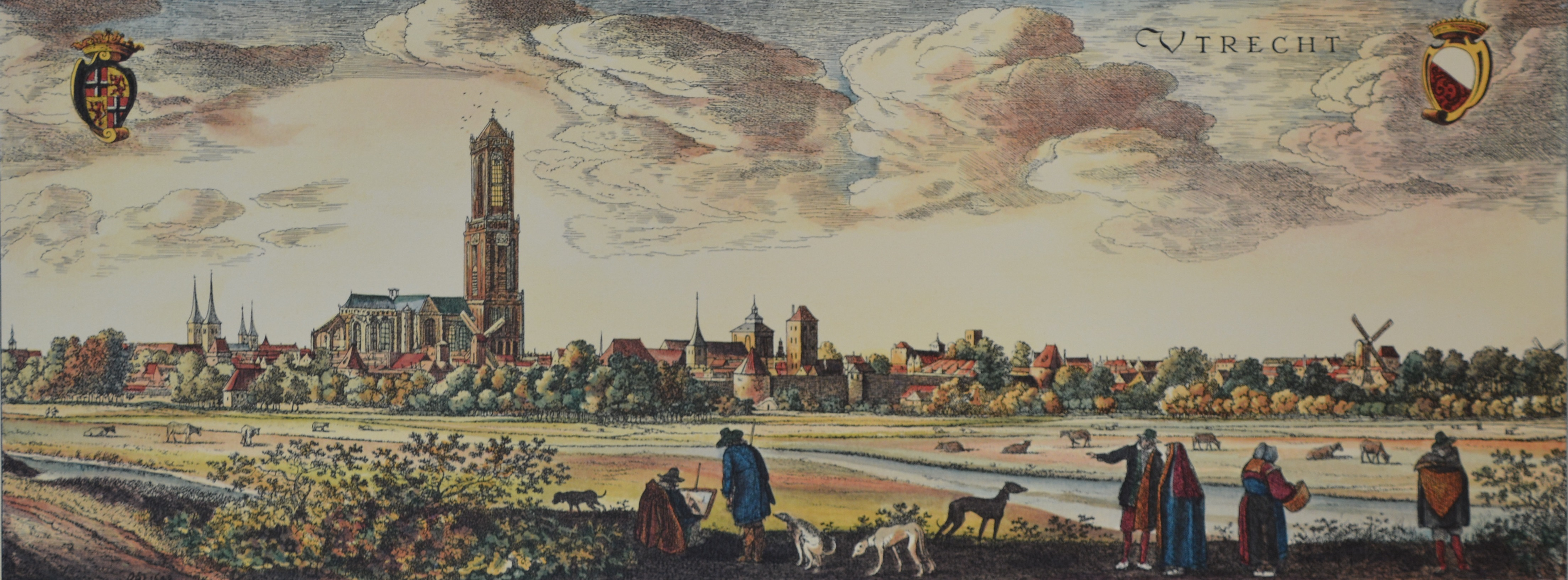 Utrecht 1648 by Saftleven